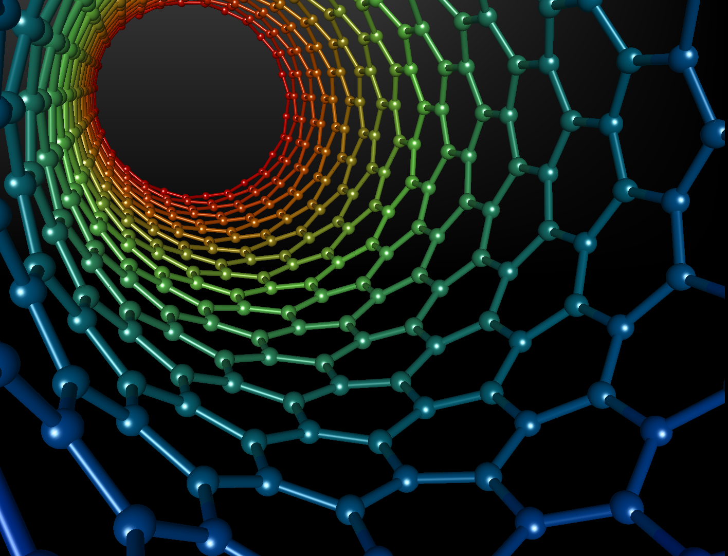 The view from inside a carbon nanotube. Created by Michael Ströck on February 1, 2006. Released under the GFDL.